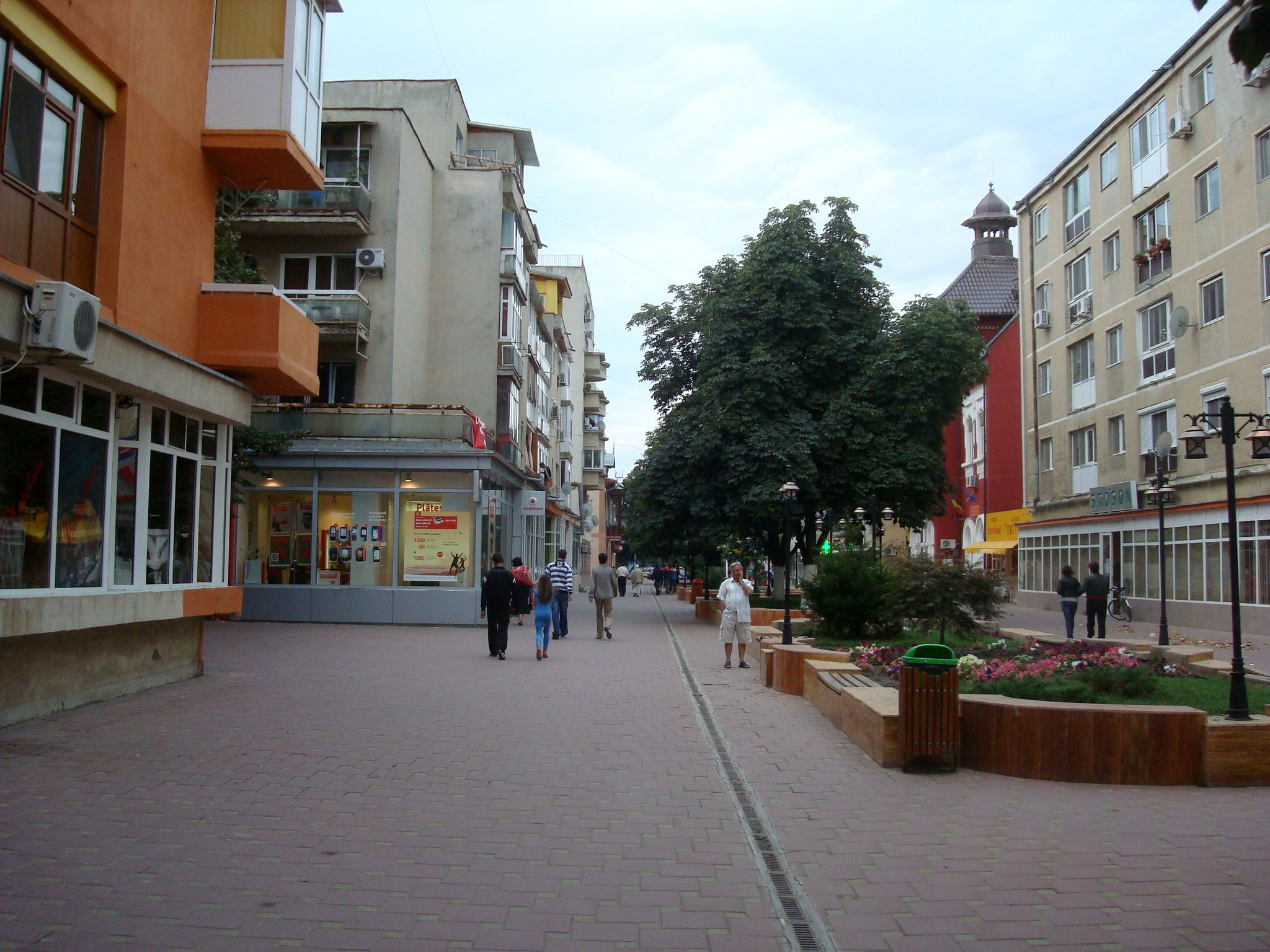 The city center of Olteniţa, România.